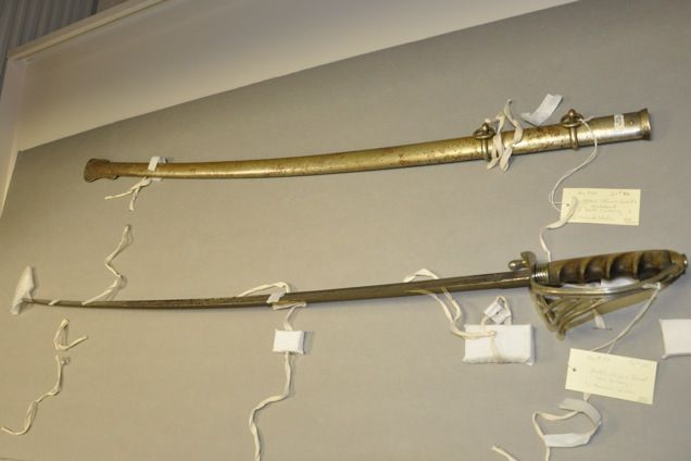 Image of the M1902 Officer's Saber (Sword) and Scabbard which belonged to Lieutenant Colonel Teófilo Marxuach and now is found in the Col. Marxuach Collection at the National Historic Trust site at Castillo San Cristobal in San Juan.